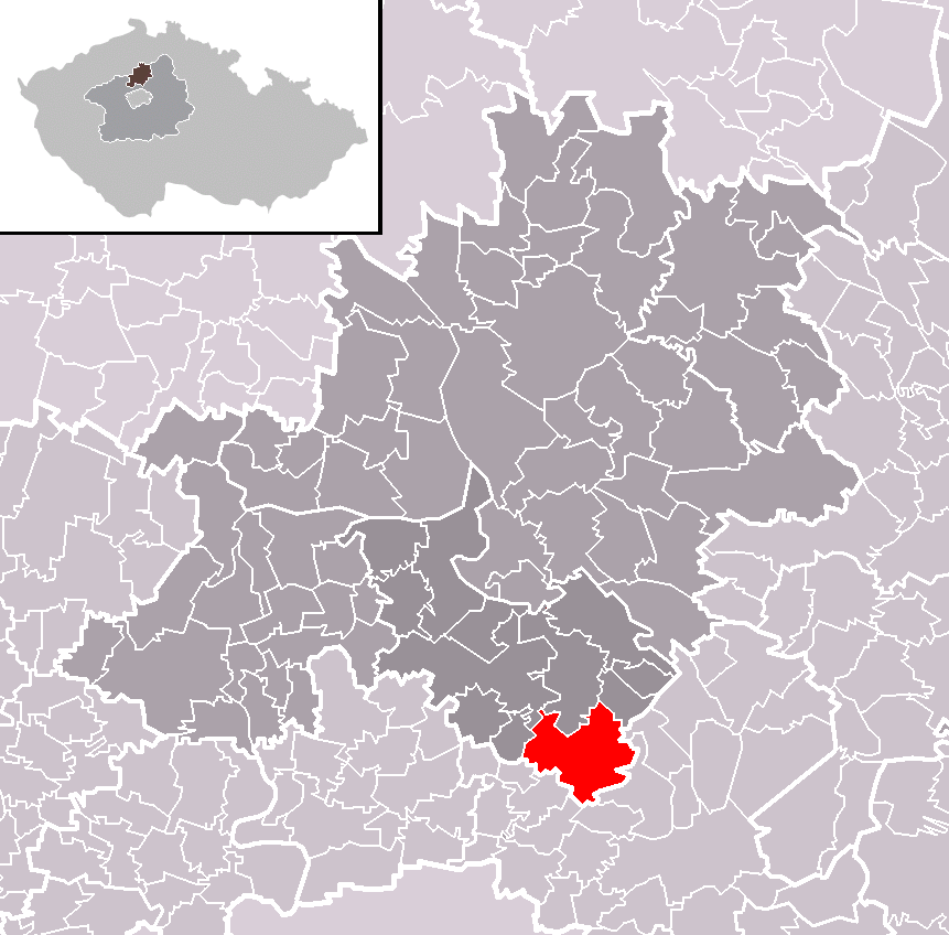 Location of Kostelec nad Labem town within Mělník District and administrative area of Neratovice as a Municipality with Extended Competence.